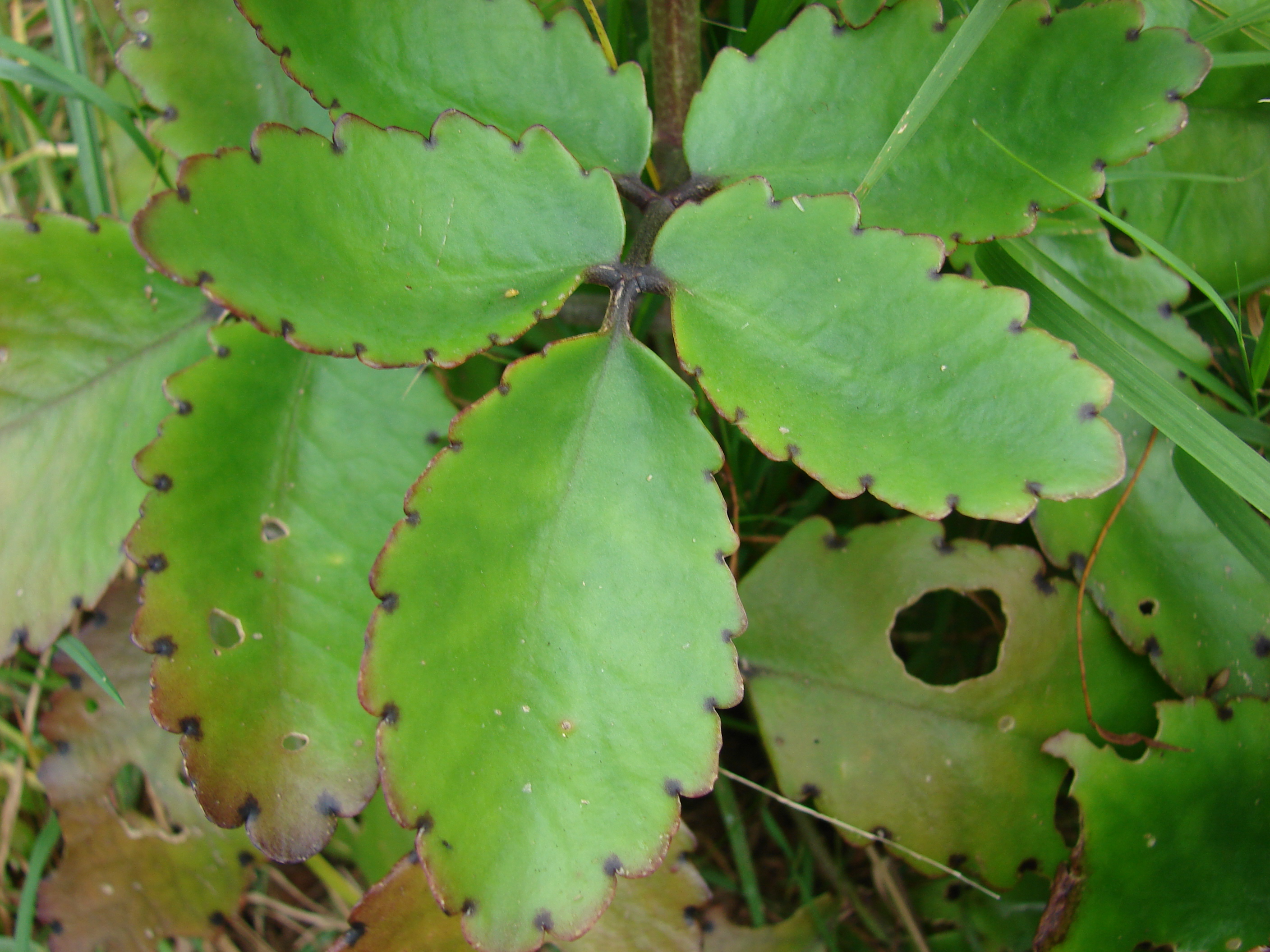 Kalanchoe pinnata (leaves). Location: Maui, Kula